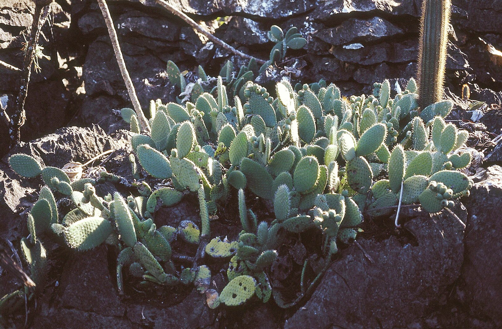 Type locality Minas Gerais Brasil